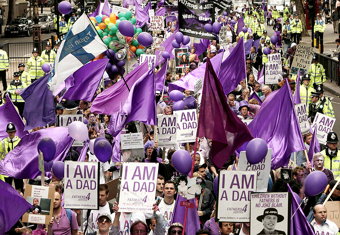 Fathers 4 Justice Day of the Dad demo, London, Father’s Day, 2004